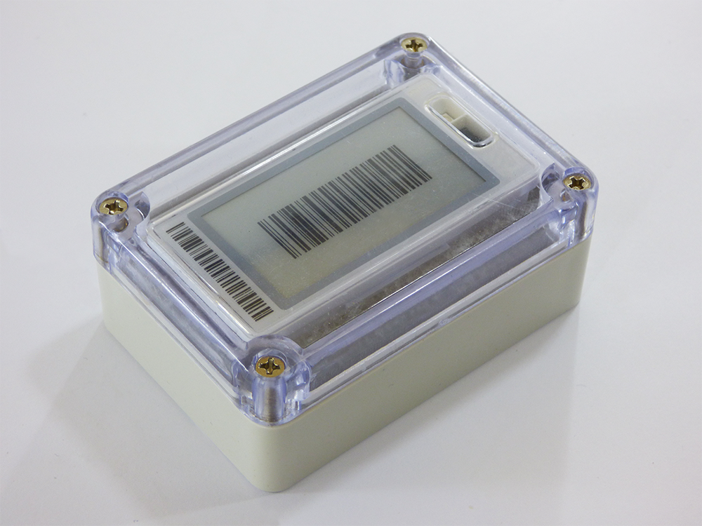 NEMA4 industrial electronic label